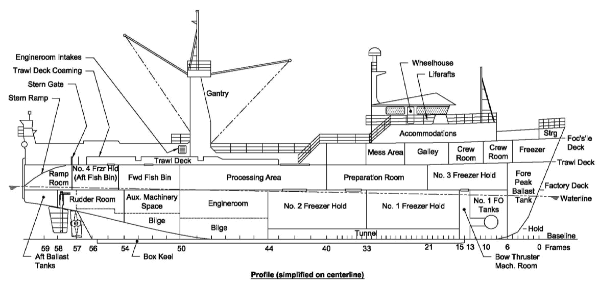 Profile view of FV Alaska Ranger. Flooding involved the aft compartments on the hold and factory decks. Most crew members were asleep in quarters on the foc’s’le and forward trawl decks when flooding began. Life rafts were stored next to the wheelhouse above the foc’s’le deck. (FO: fuel oil)